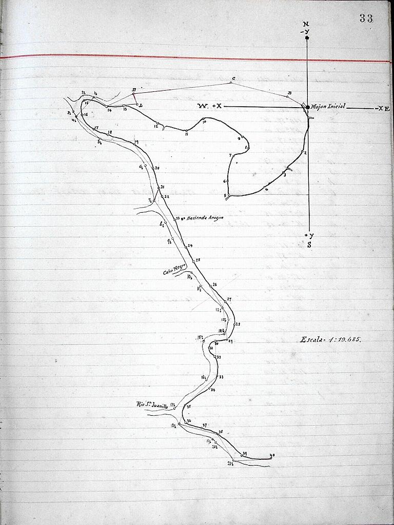 Map (on a scale of 1:19,685 in the original) from the official proceedings of the binational commission presided by engineer arbitrator Gen. Edward Porter Alexander, to define the frontier between the Republics of Nicaragua and Costa Rican, in accordance with the Cañas-Jerez Treaty of 1858, the Arbitration Award by President Grover Cleveland of 1888, and the Arbitration Award by Gen. Alexander of 1897.